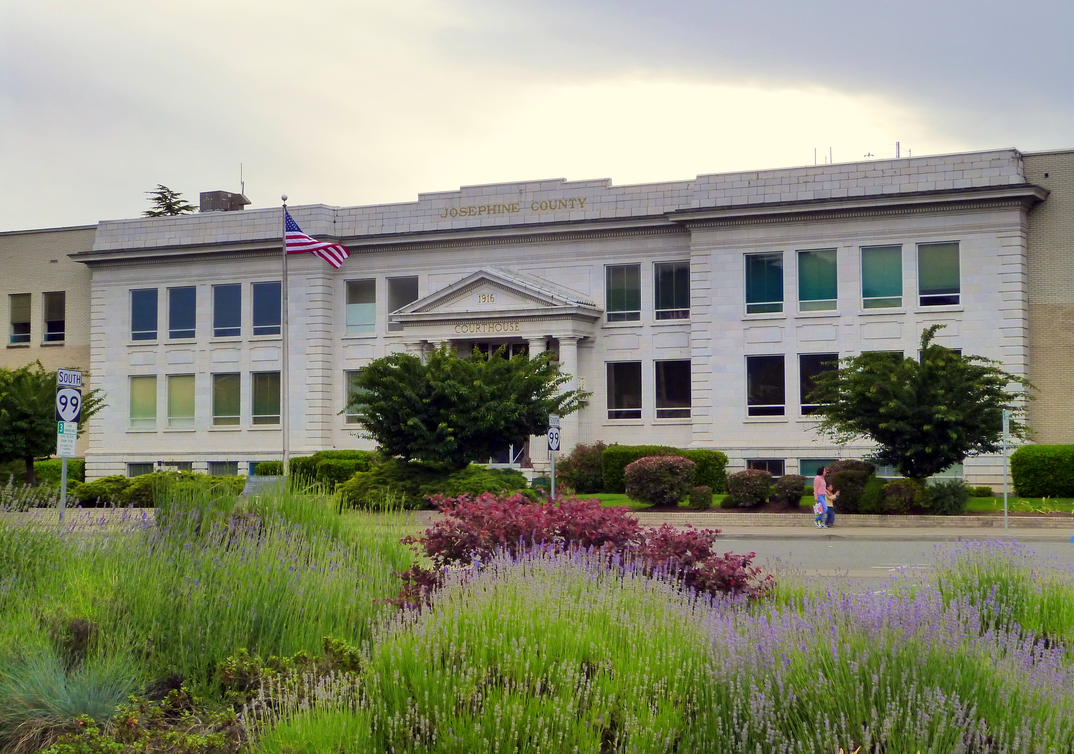 The central facade of the Josephine County Courthouse in Grants Pass, Oregon, United States. The whole courthouse is substantially larger than presented in this photo.